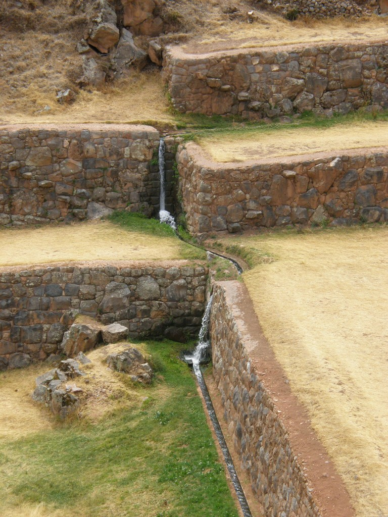 Water in the terraces of Tipón